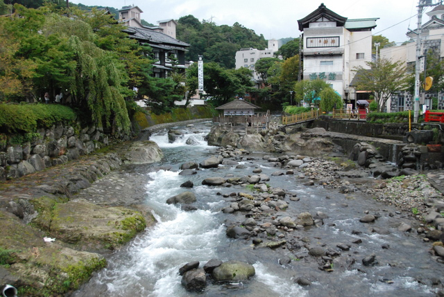 Shuzenji Onsen and Shuzenji River with Tokkonoyu in Izu, Shizuoka, Japan. Nikon D80